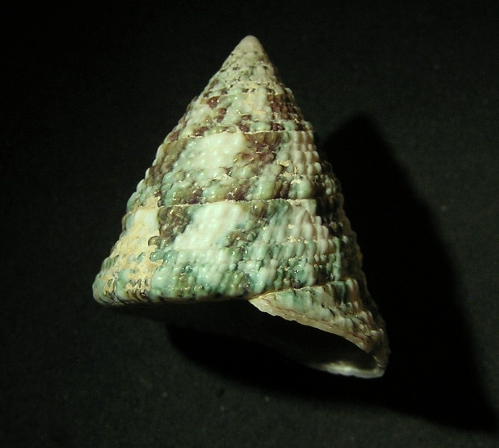 Tectus magnificus Poppe, 2004; family Turbinidae; South China Sea